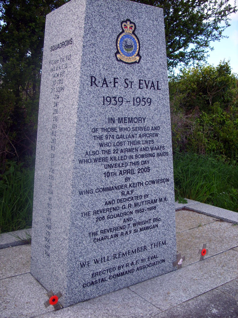 Memorial to RAF and WAAF personnel based at RAF St Eval killed in service during World War II.